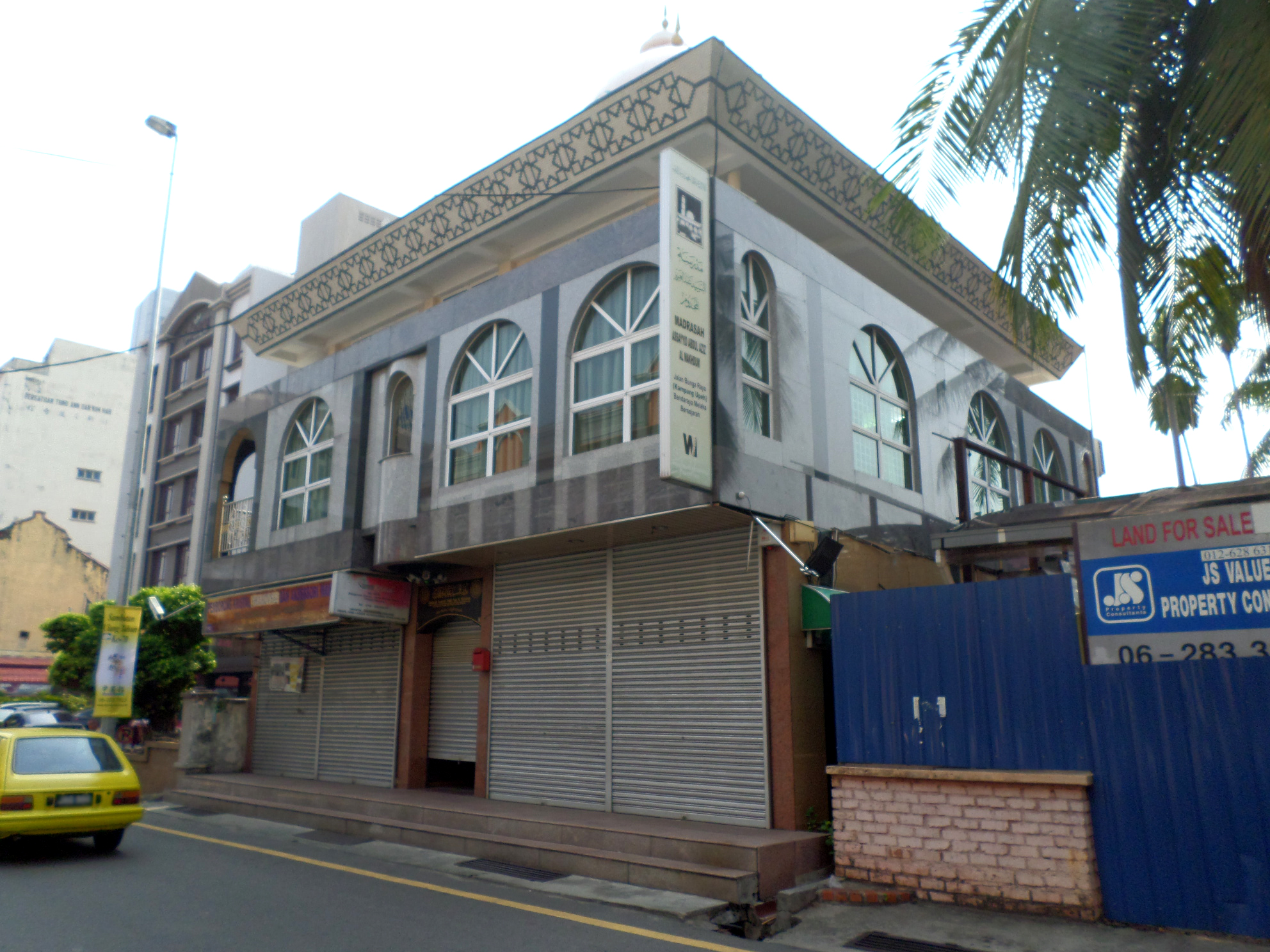 Assayyid Abdul Aziz Al Makhdum Madrasa, Melaka City, Central Melaka, Melaka, Malaysia